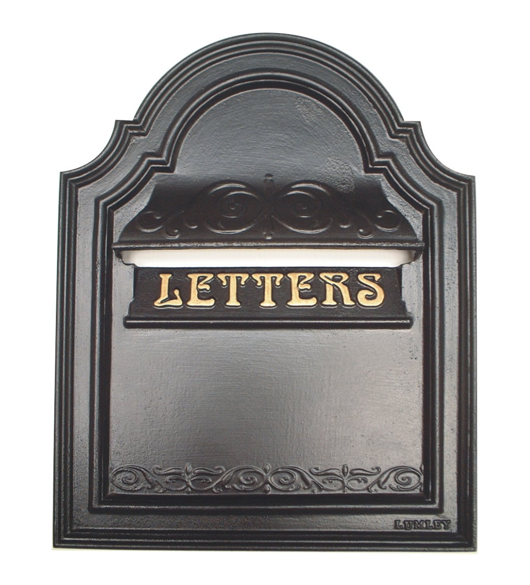 This is a cast iron letter box designed, made and sold by Robin Lumley.